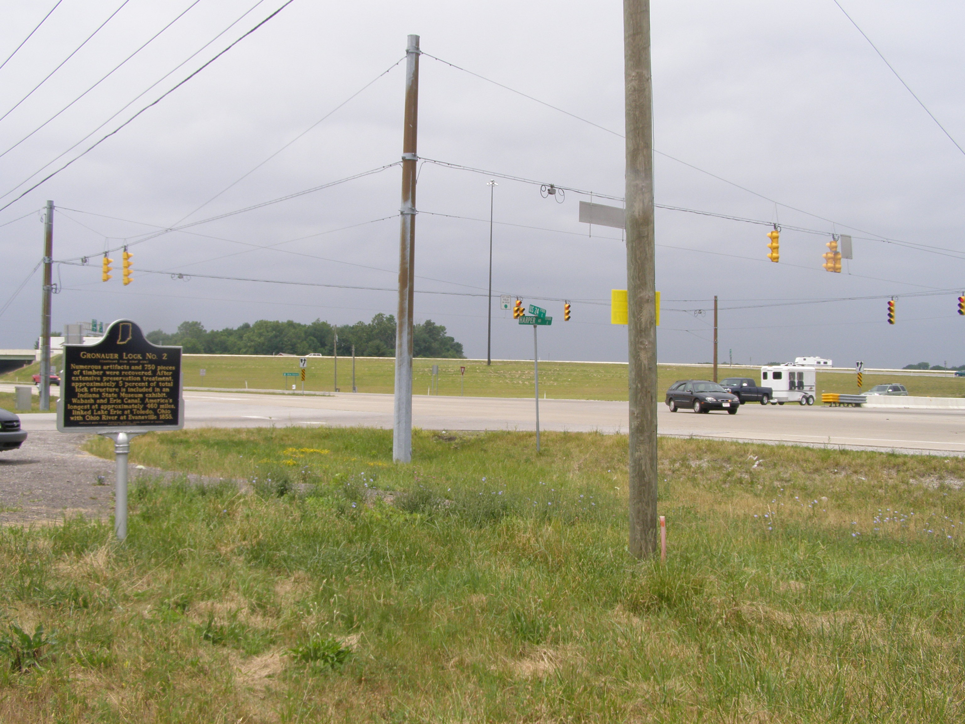 Christopher Light